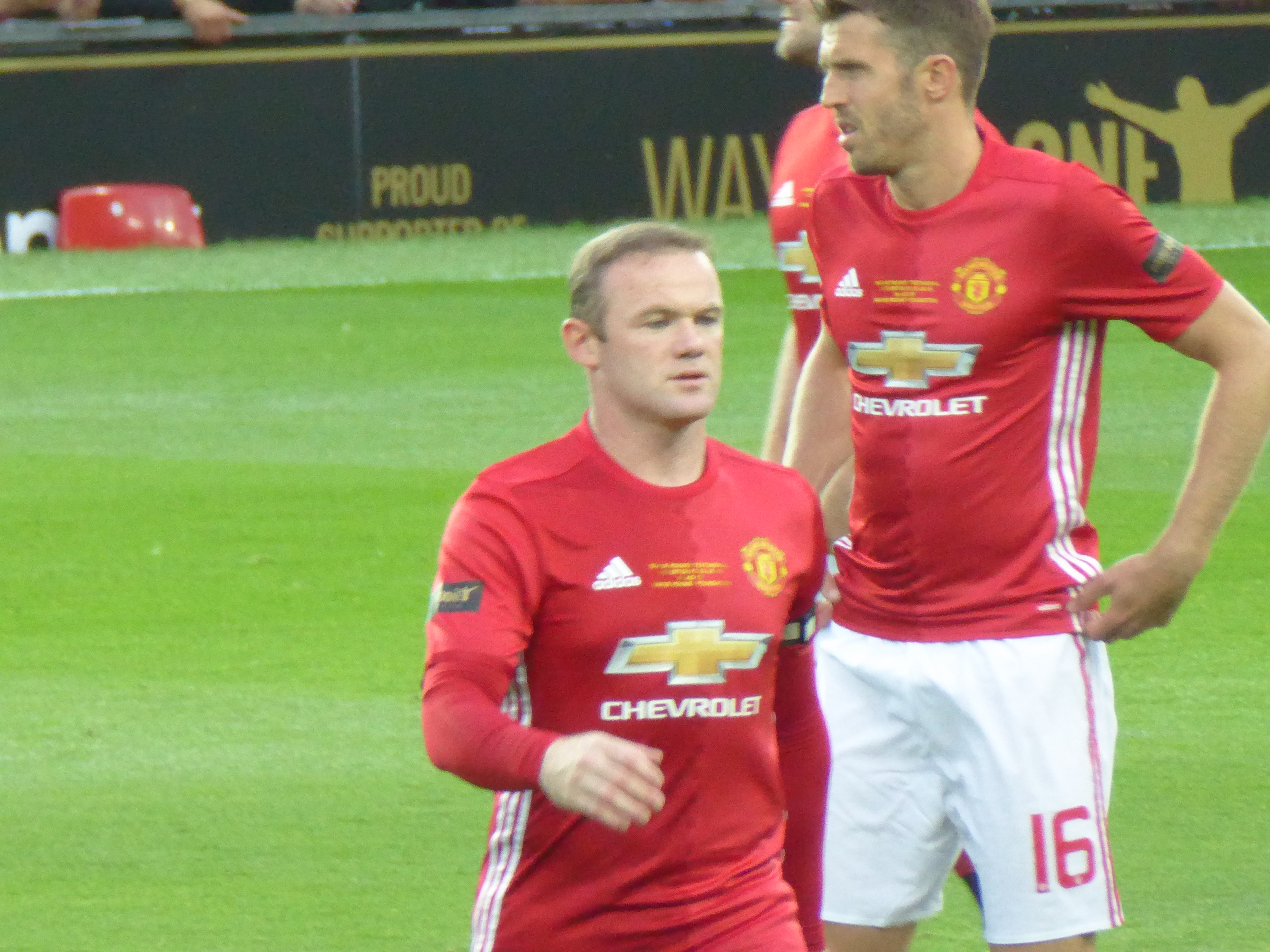 Manchester United v Everton (0-0), Wayne Rooney Testimonial, Old Trafford, Manchester, Greater Manchester, England, August 2016. Home debut of Zlatan Ibramhimovic.